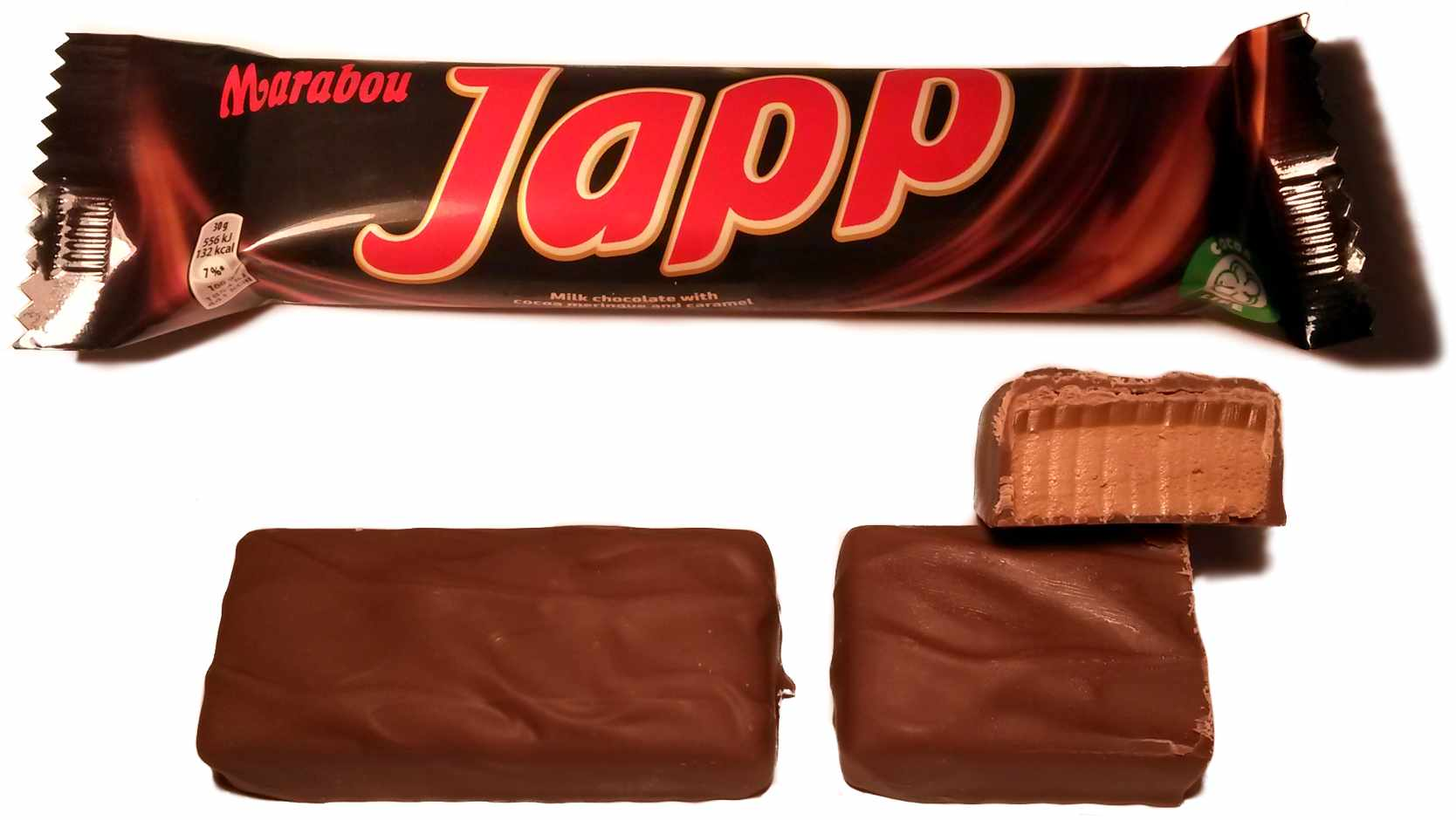 Japp chocolate bar. The bar weights 60 g. It has a cocoa meringue and caramel filling with milk chocolate coating. Manufactured by Mondelēz International which owns the Marabou-brand.